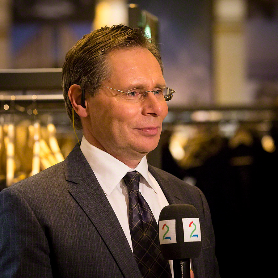 Stål Talsnes at Governor Øystein Olsen's anual address in February 2016